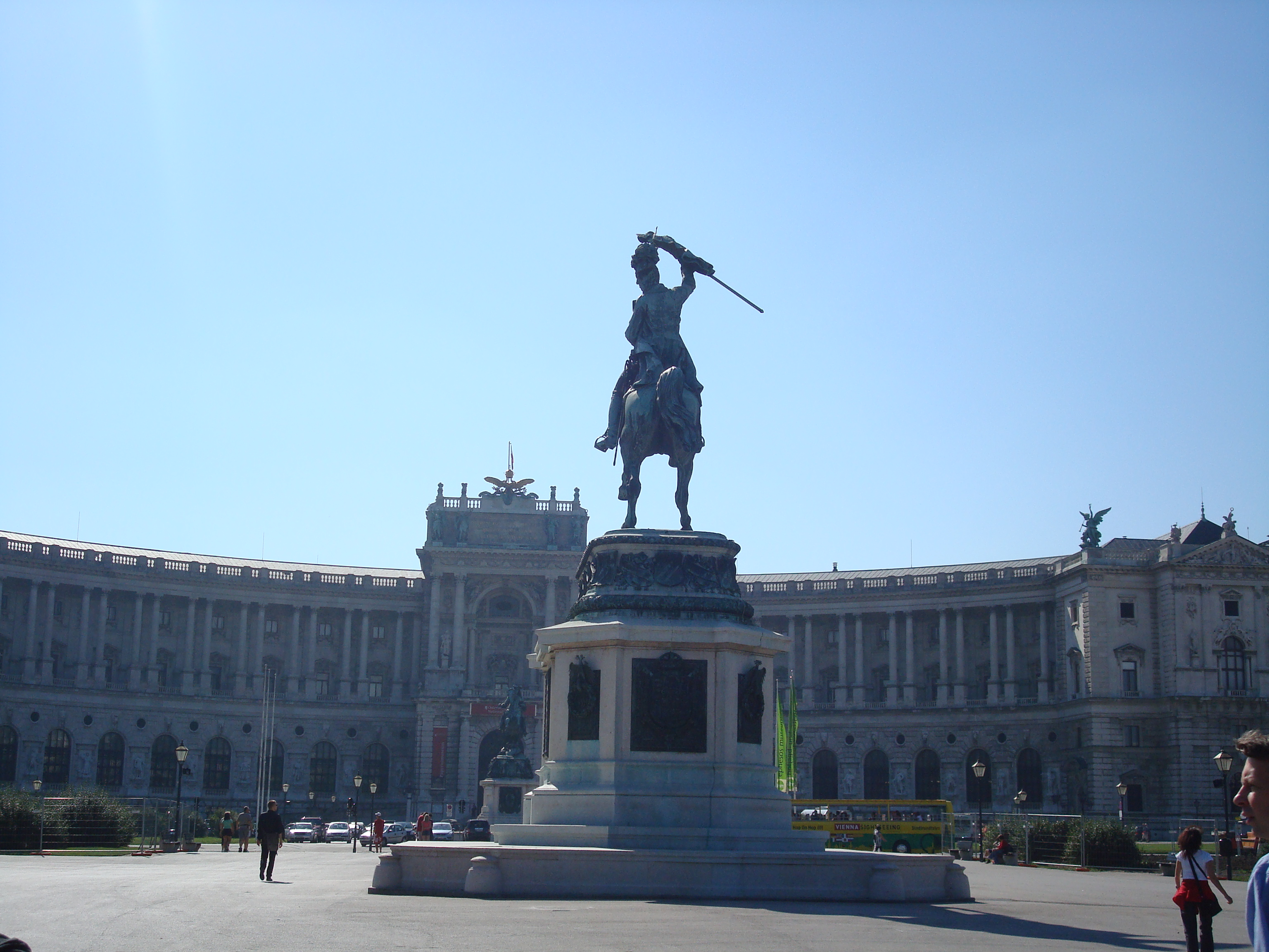 Austria, Vienna, Heldenplatz